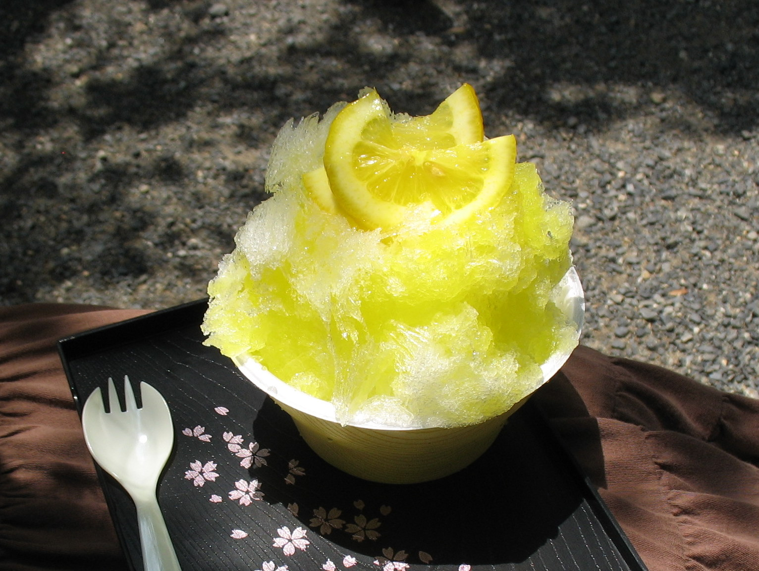 Japanese-style shaved ice flavored with lemon syrup. Purchased at a stand just outside Kinkaku-ji in Kyoto, Japan.